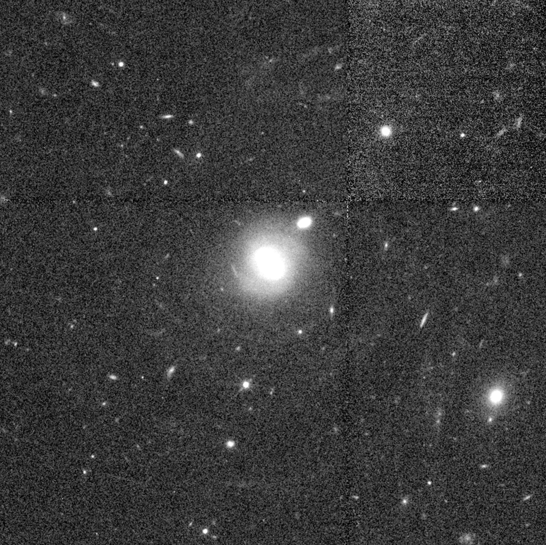 Malin 1 galaxy. Photo taken from Hubble Legacy Archive.